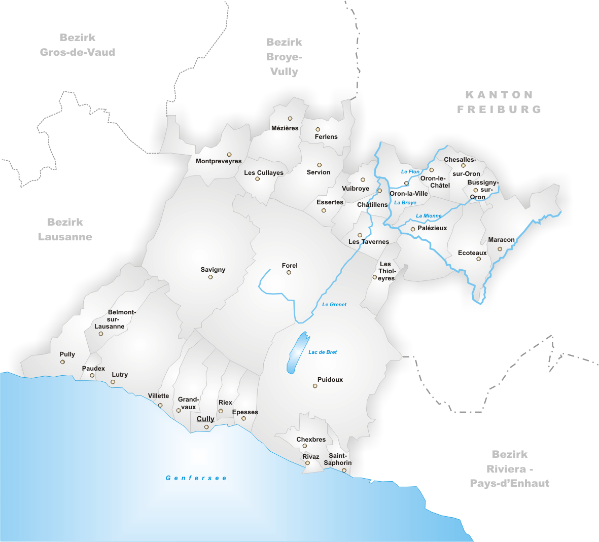 Municipalities of District Lavaux-Oron from 2008